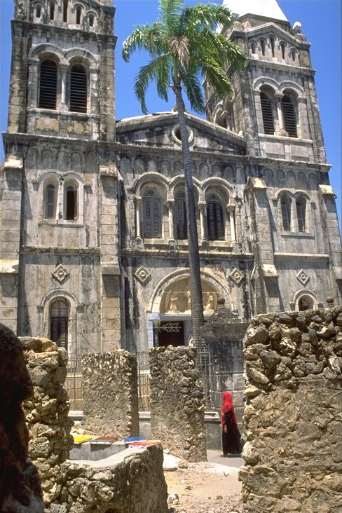 St. Joseph Cathedral Zanzibar, 1996 Photo by tato grasso